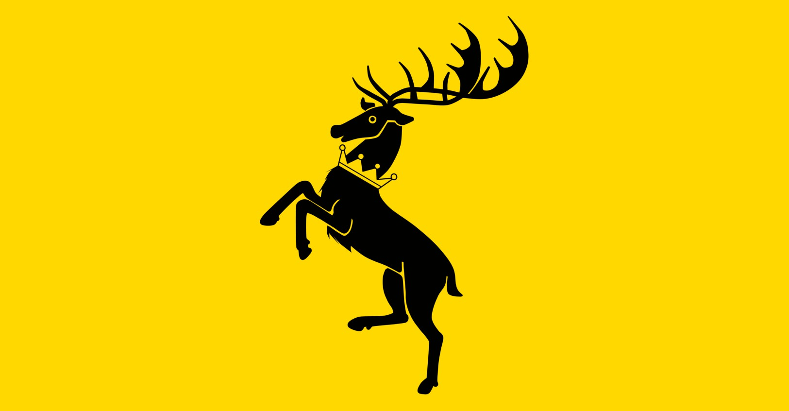 Flag of the house Baratheon in A Song of Ice and Fire by George R. R. Martin